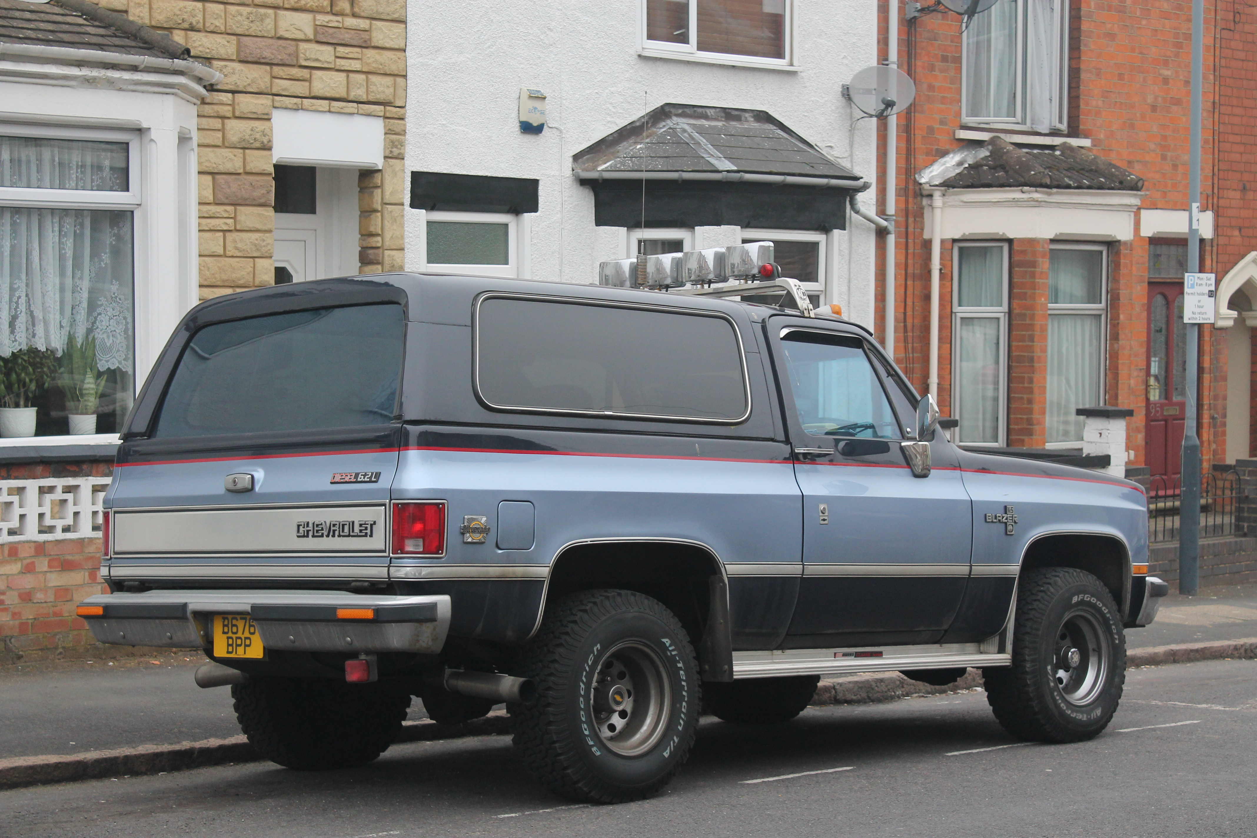 Quite A ridiculously massive thing, this was actually the smallest full-size SUV GMC offered at the time! As you can imagine, stood out a mile on a UK suburban street in 2014! This one has a massive 6.2 litre V8 diesel engine, bet it sounds great! Really looks the part with all those spotlights and everything. This would be terrifying roaring up behind you! This one was imported in 1991, so spent 6 years in the states and 23 over here. Not your everyday spot and even more interesting to see out of a show parked on the street. Look at those exhausts coming out the sides! The vehicle details for B676 BPP are: Date of Liability 01 08 2014 Date of First Registration 18 03 1991 Year of Manufacture 1985 Cylinder Capacity (cc) 6200cc CO₂ Emissions Not Available Fuel Type HEAVY OIL Export Marker N Vehicle Status Licence Due to Expire Vehicle Colour BLUE Vehicle Type Approval Not Available